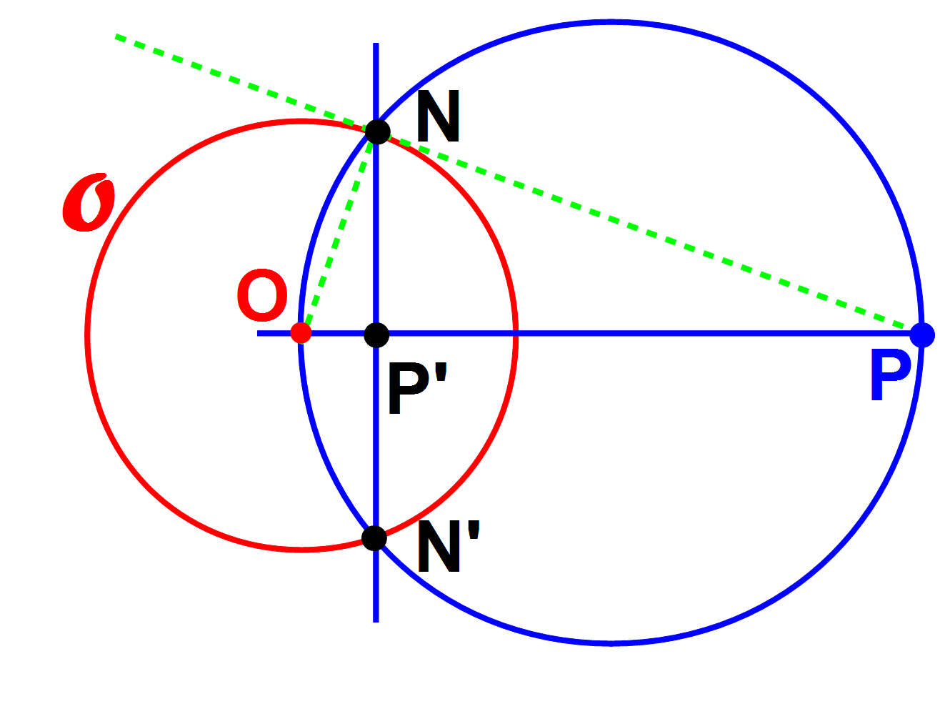 Labelled diagram showing construction of inverse of point with respect to a circle.